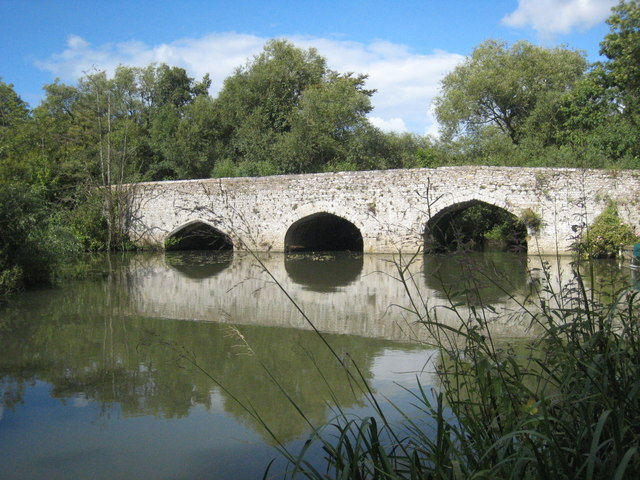 Old Culham Bridge on the River Thames in Oxfordshire